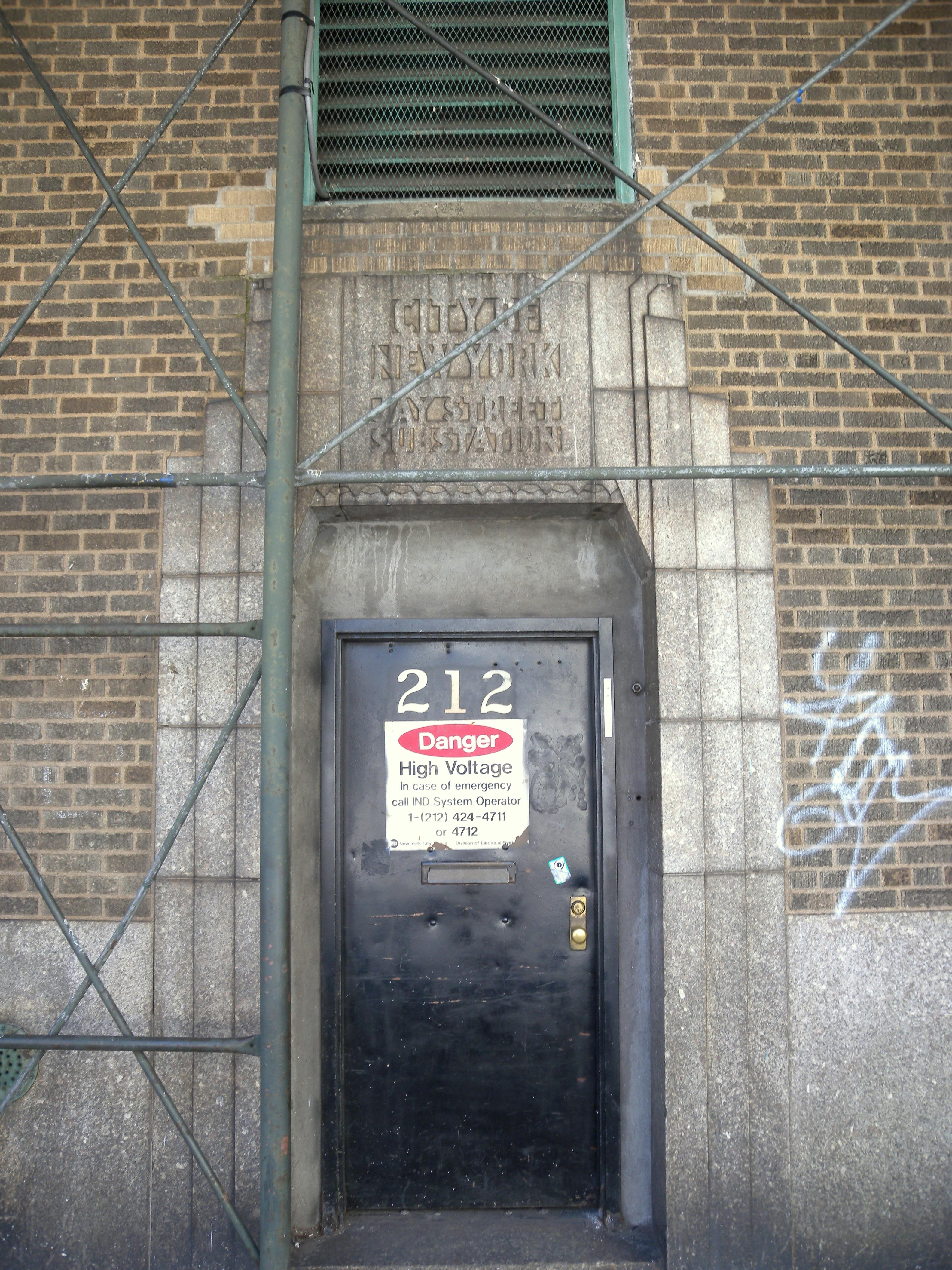 Looking west from Jay Street at power station on a sunny early afternoon.